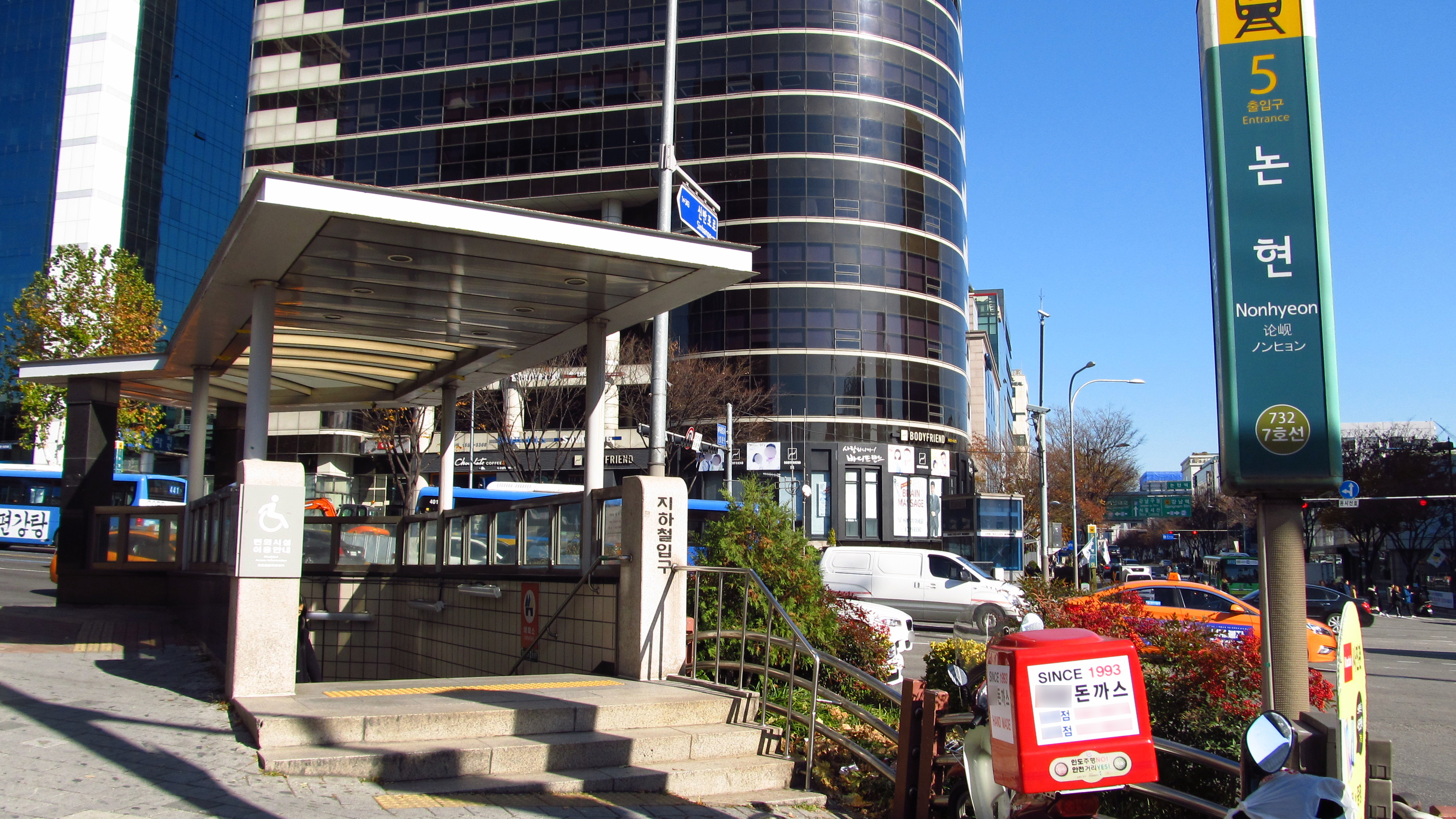 The no.5 entrance to Nonhyeon Station on Seoul Subway Line 7 in Seocho-gu, Seoul, Republic of Korea(South Korea)